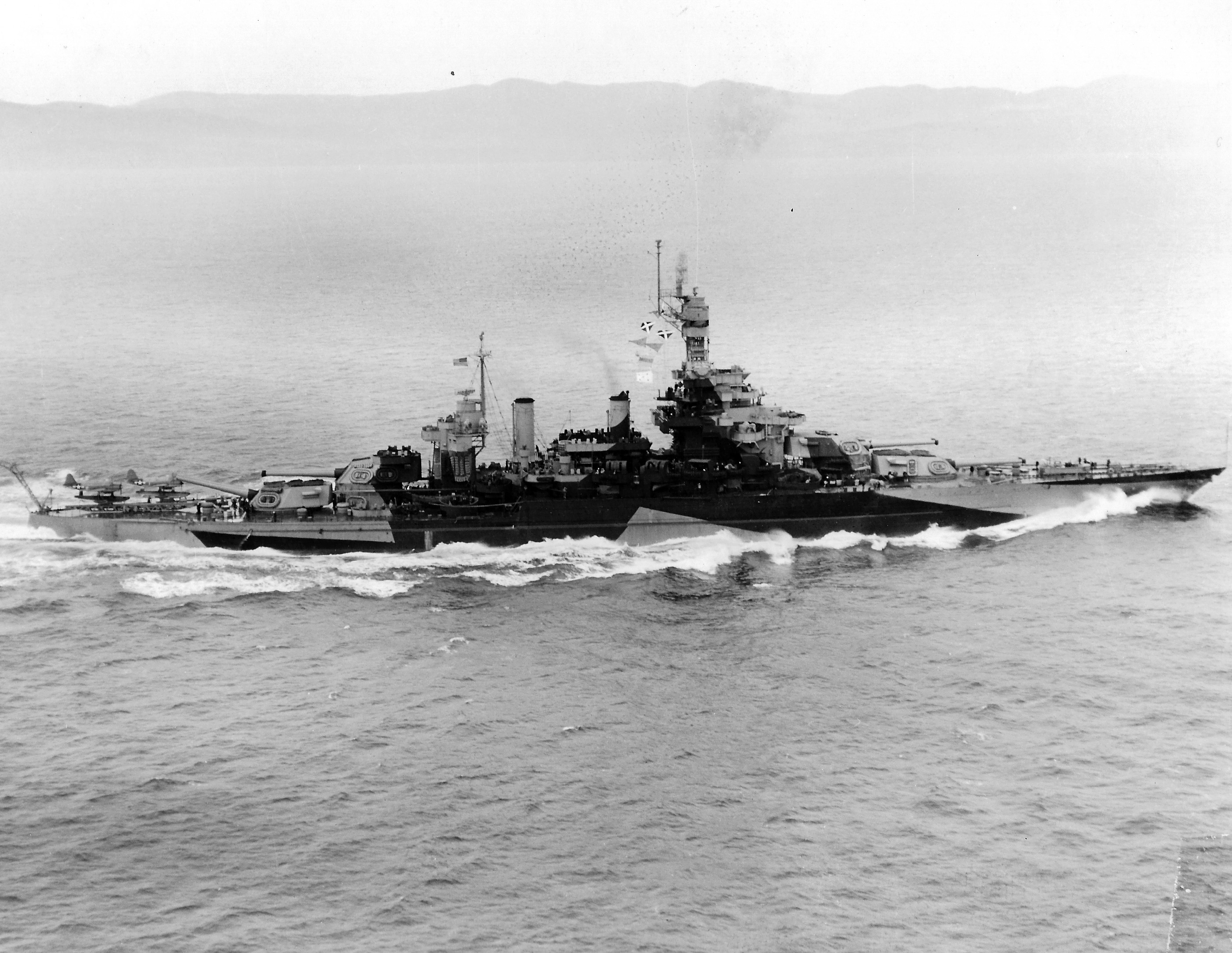 19-N-65057: USS Maryland (BB-46). Running post-overhaul speed trials in Puget Sound, Washington, 26 April 1944. Photograph from the Bureau of Ships Collection in the U.S. National Archives. (2016/02/08).